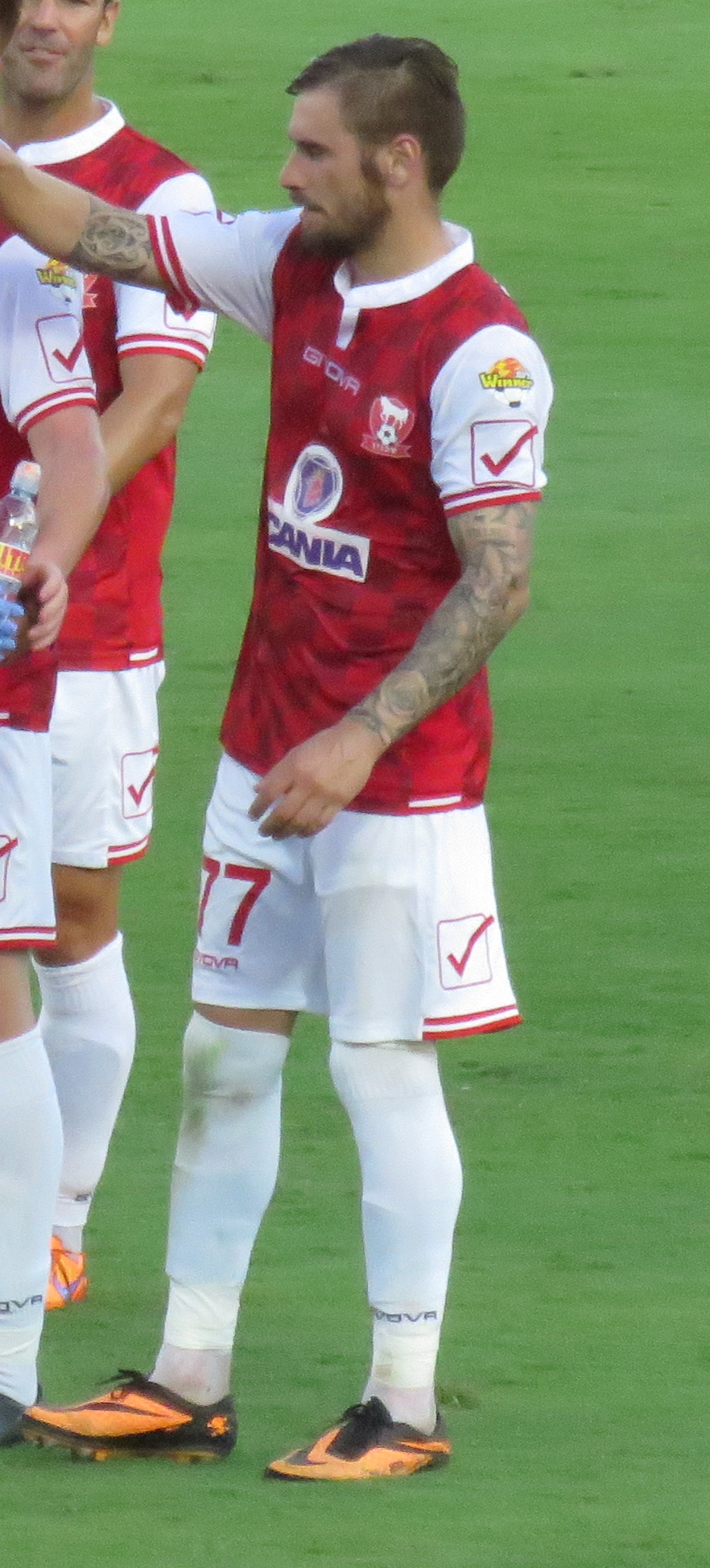 Maccabi Tel Aviv VS. Bnei Sakhnin, 22 August 2015